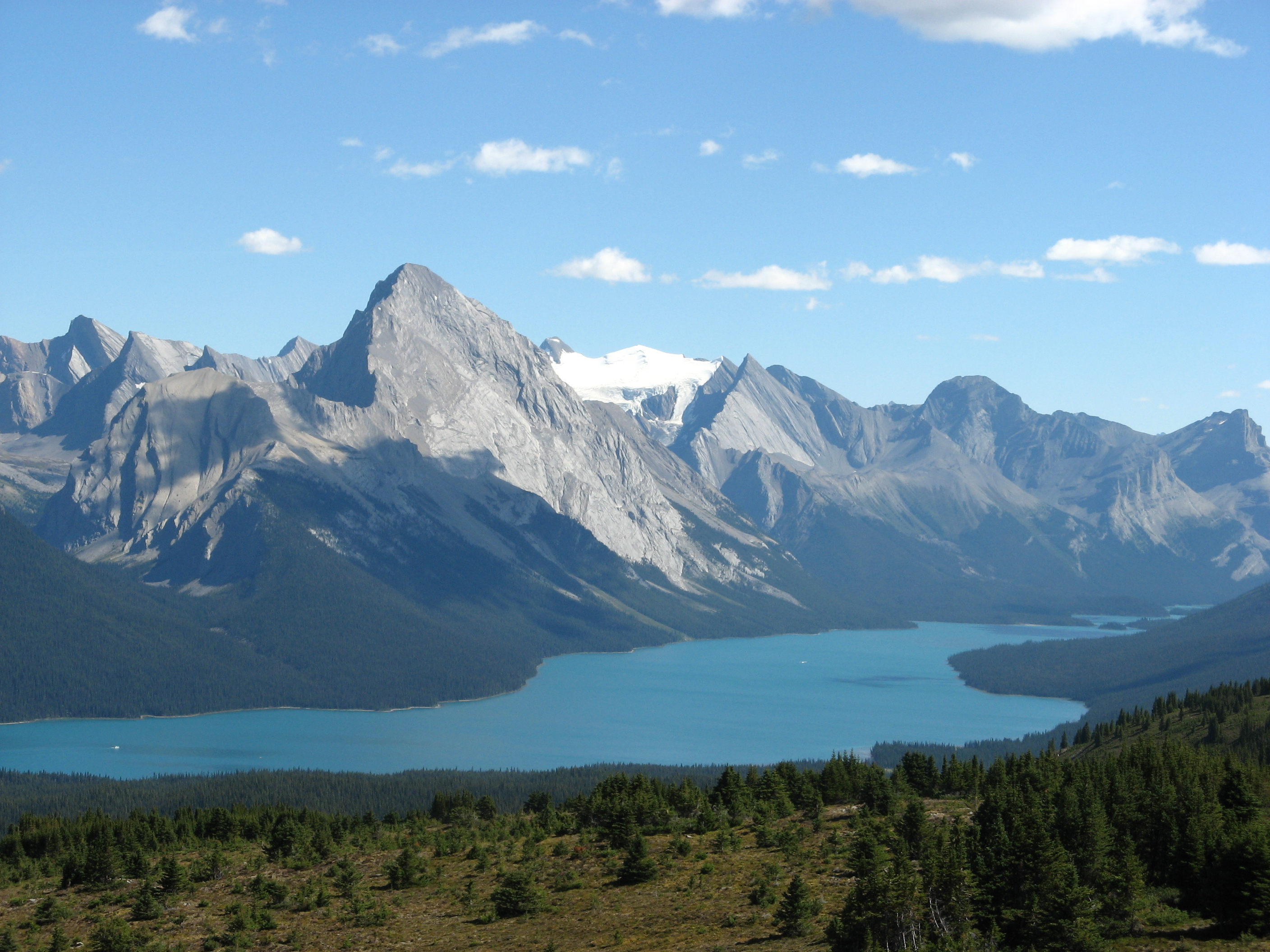 Maligne Lake Bald Hills, Jasper National Park, Alberta, Canada